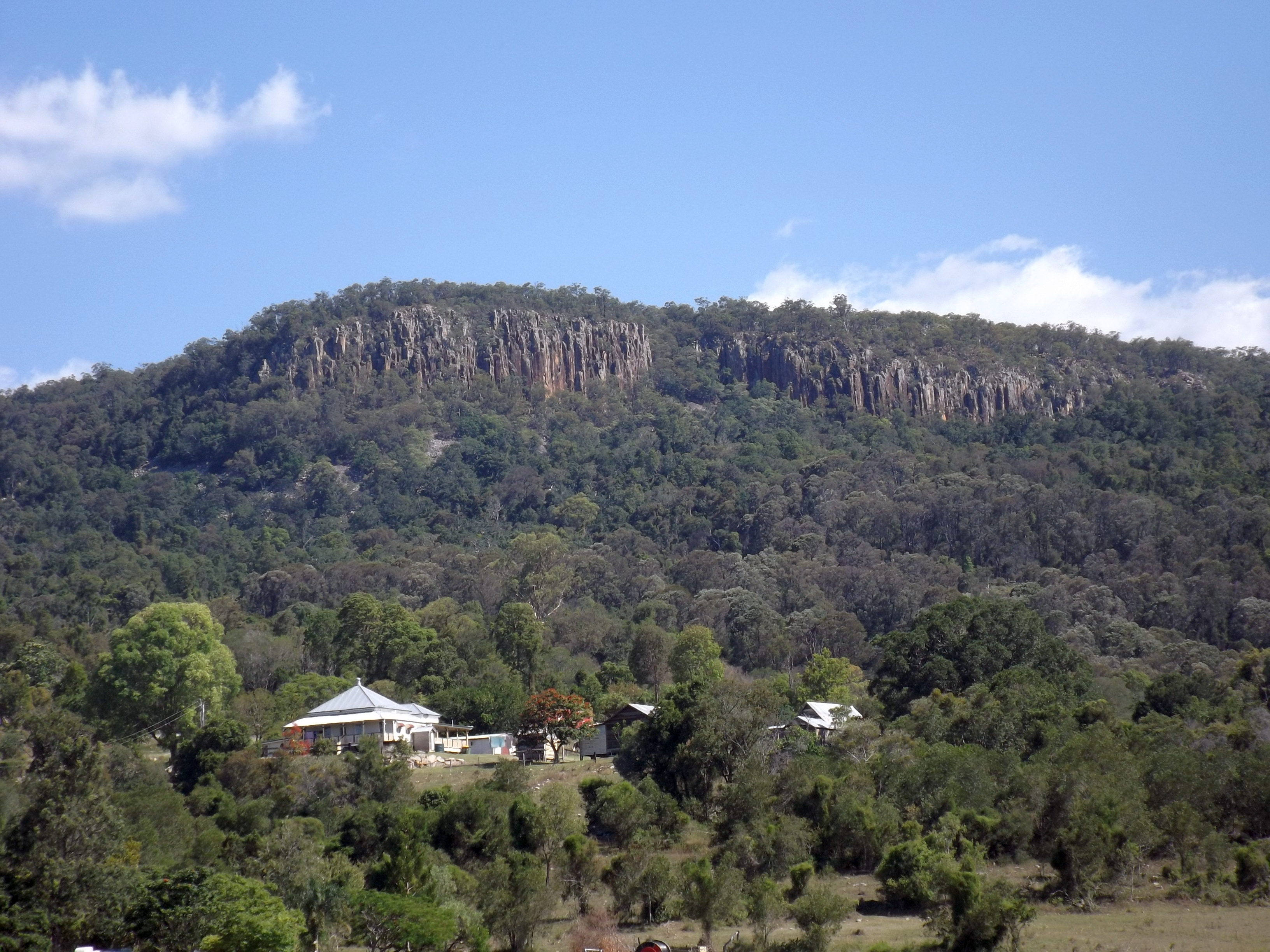 Photo of Moogerah Peaks National Park and Mount French cliffs from Templin, Queensland